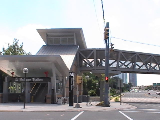 Photo of entrance to McLean Metrorail station, opened for service July 26, 2014